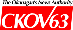 Former logo for radio station CKQQ-FM. This was the AM logo before the FM/Format switch Category:Radio station logos